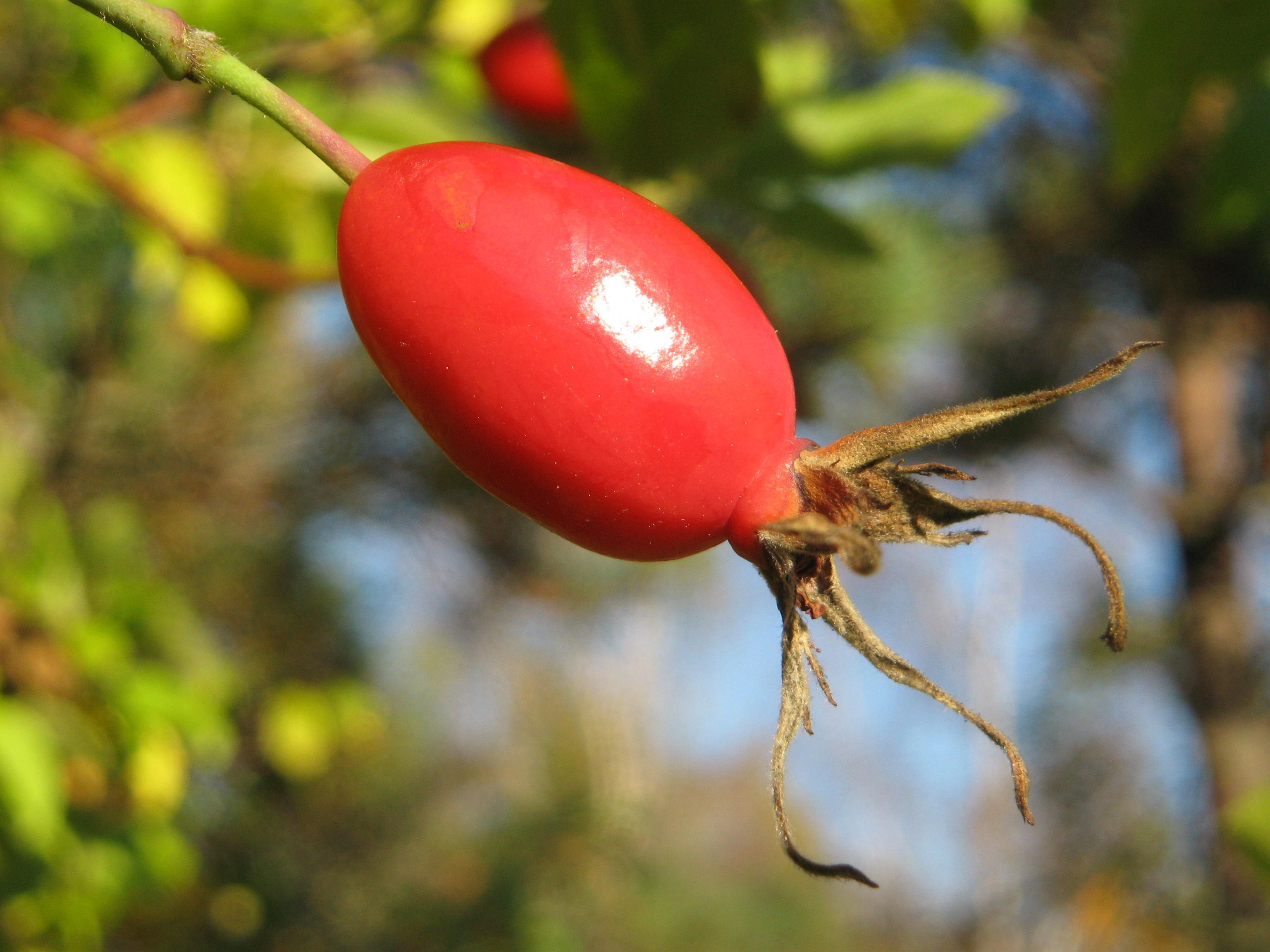 Rose hip, photo taken in Sweden.